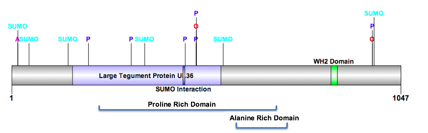 Domains of C15orf39 gene.